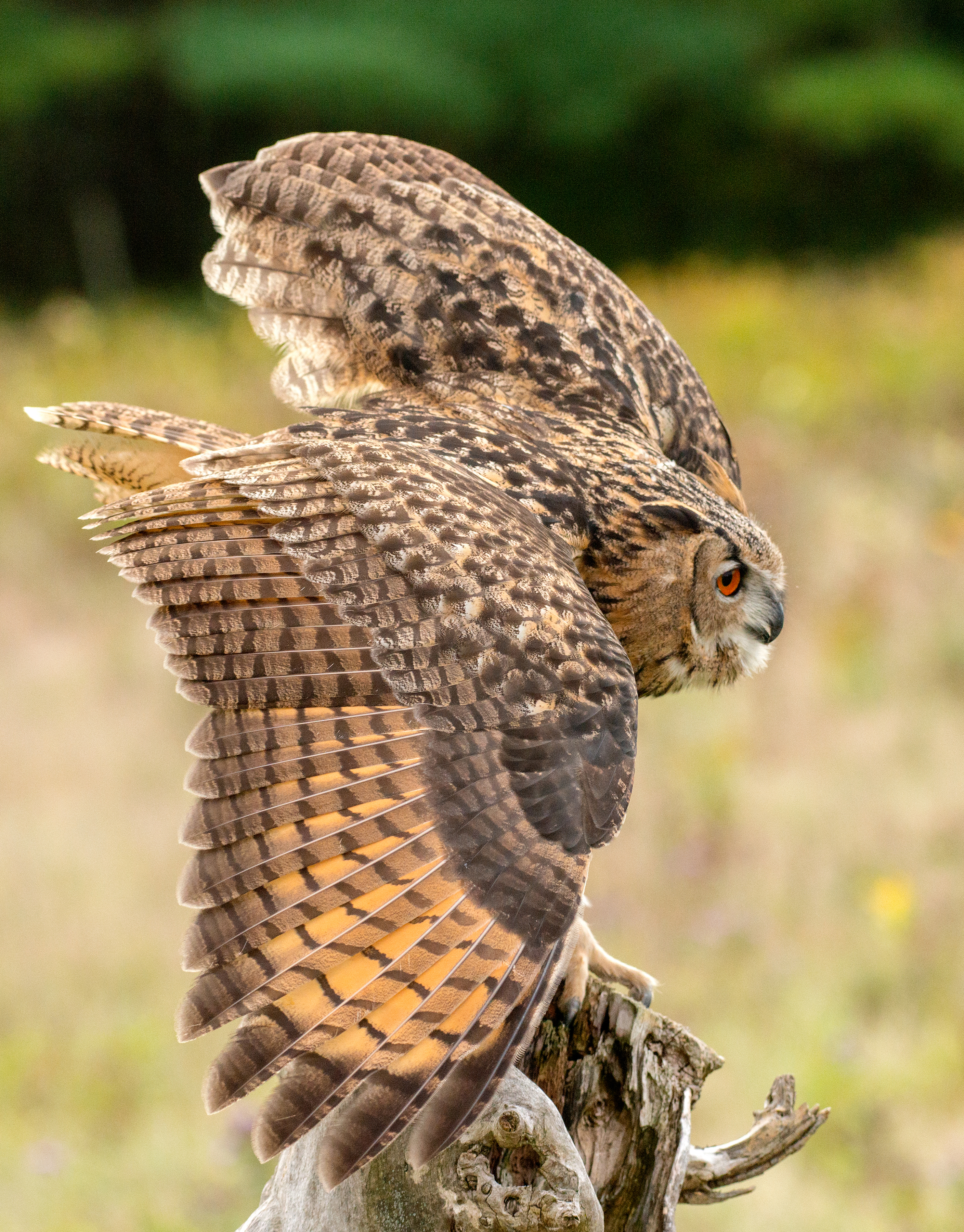 Unique camo pattern